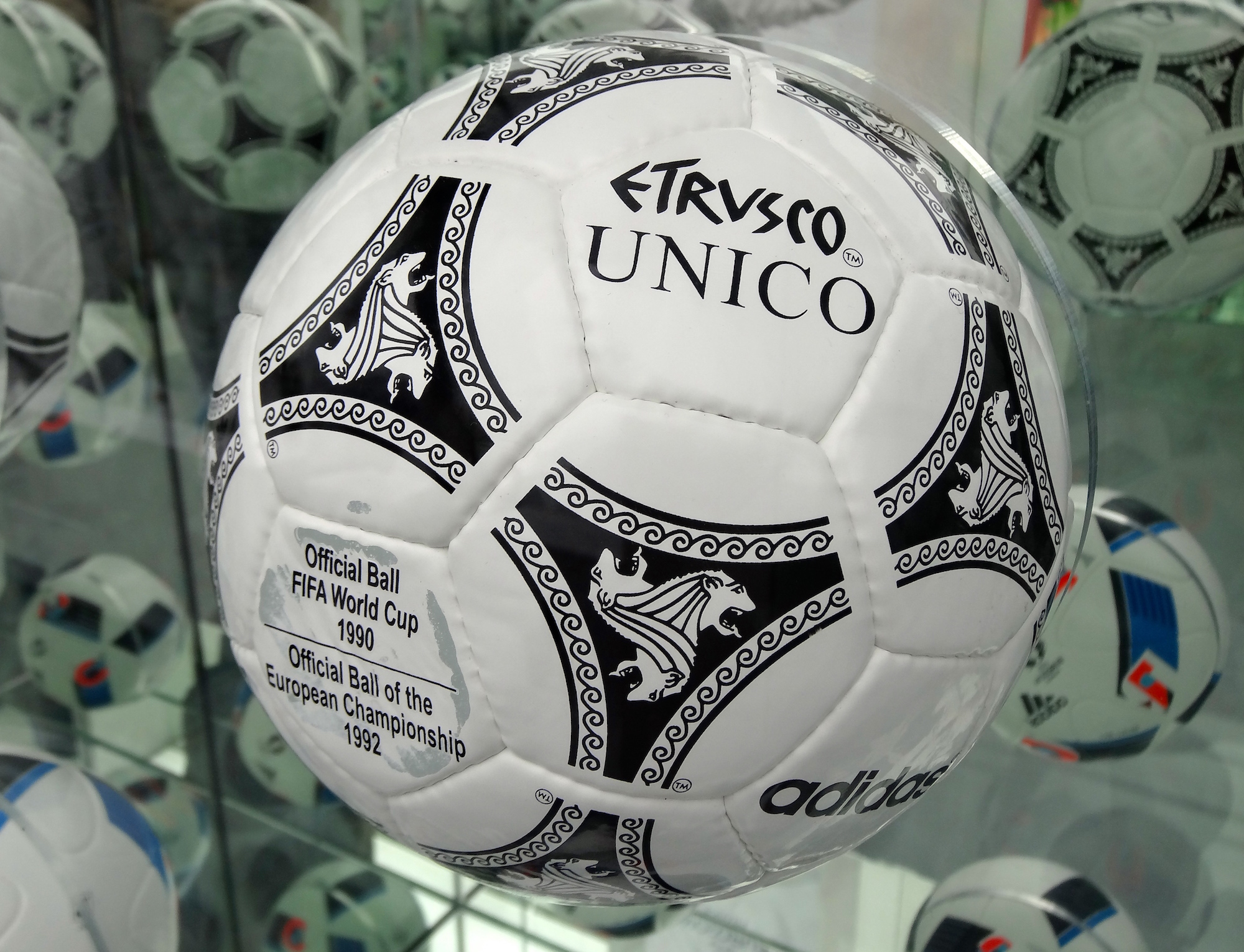 World Cup 1990 & Euro 1992 ball